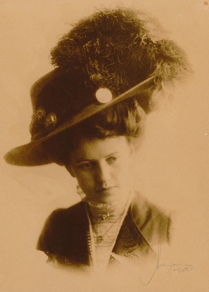 Depicted person: Kaja Norena – Norwegian singer (1884-1968)